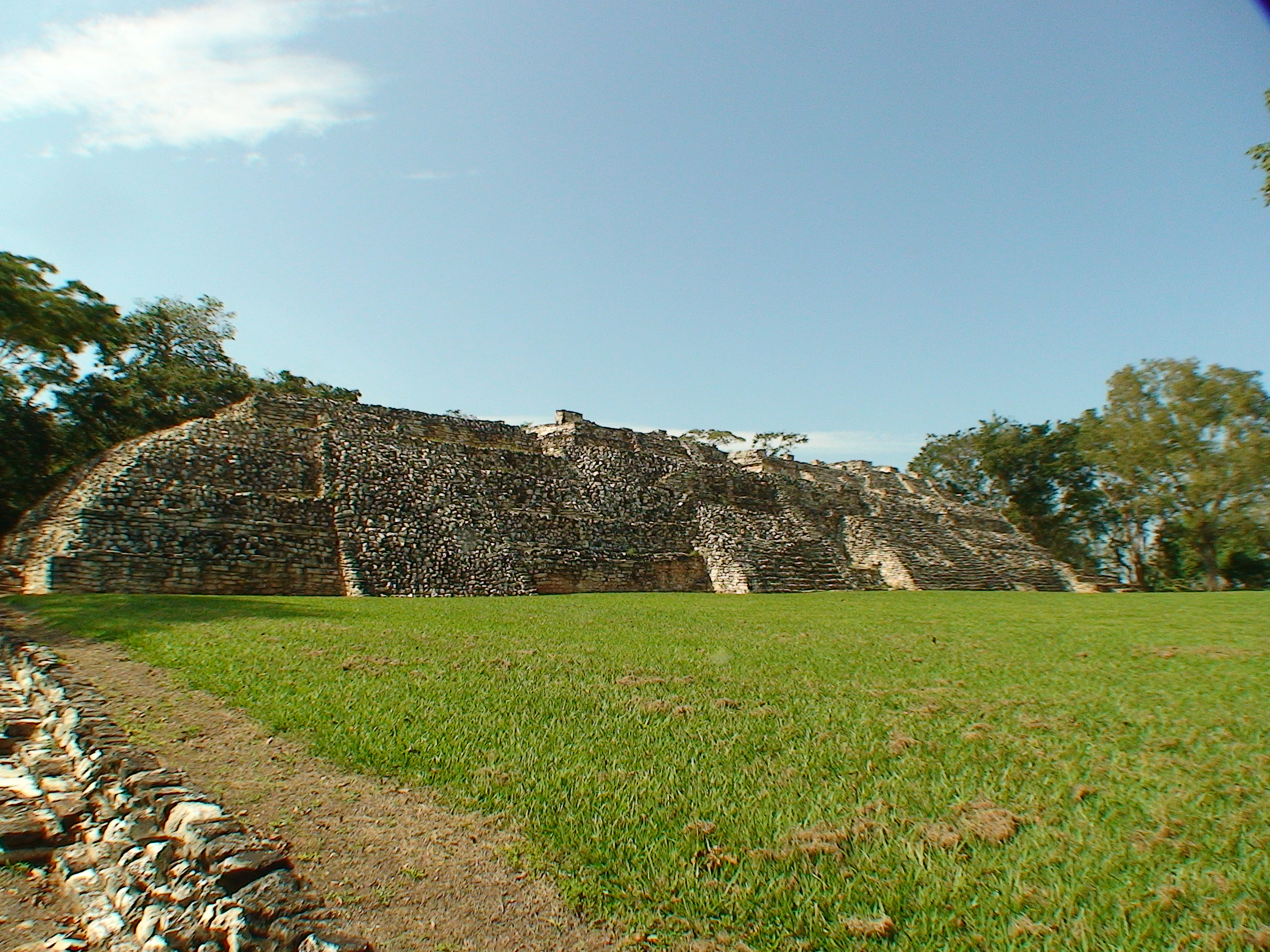 Pomoná, Tabasco, Mexico